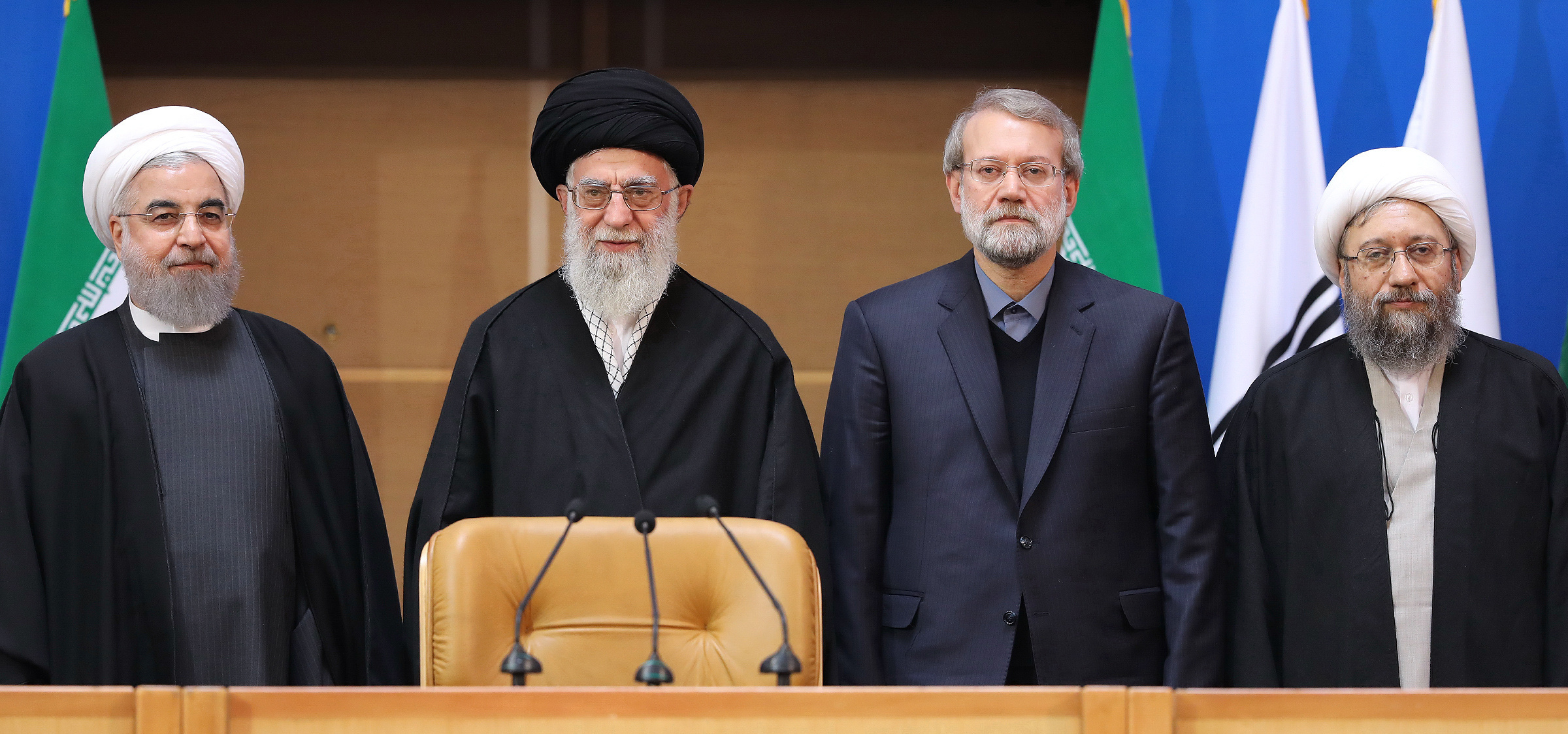 Sixth International Conference in Support of the Palestinian Intifada, Tehran